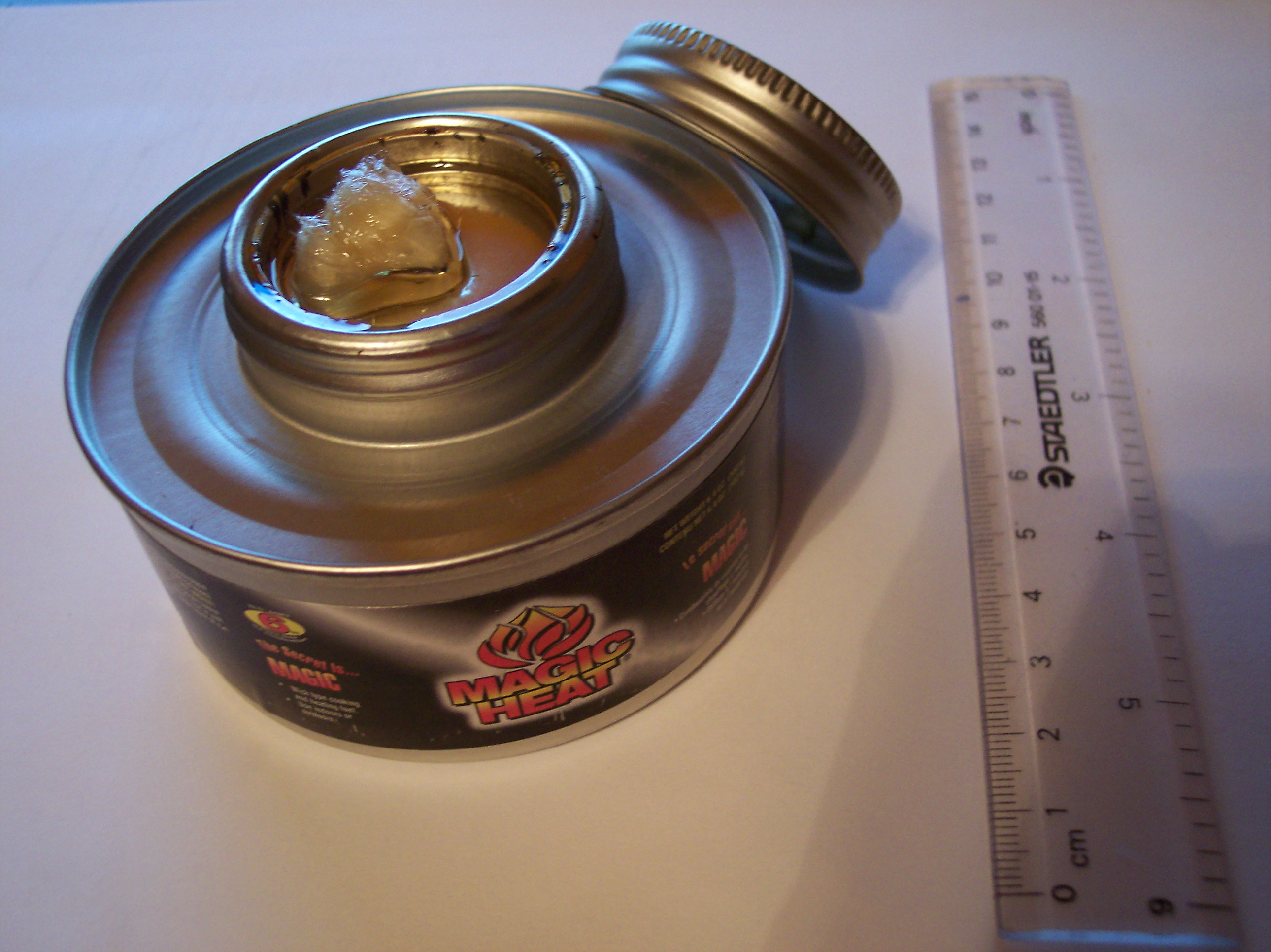 A 182g can of dietheylene glycol (DEG) chafing fuel. Maximum burn time = 6 hours